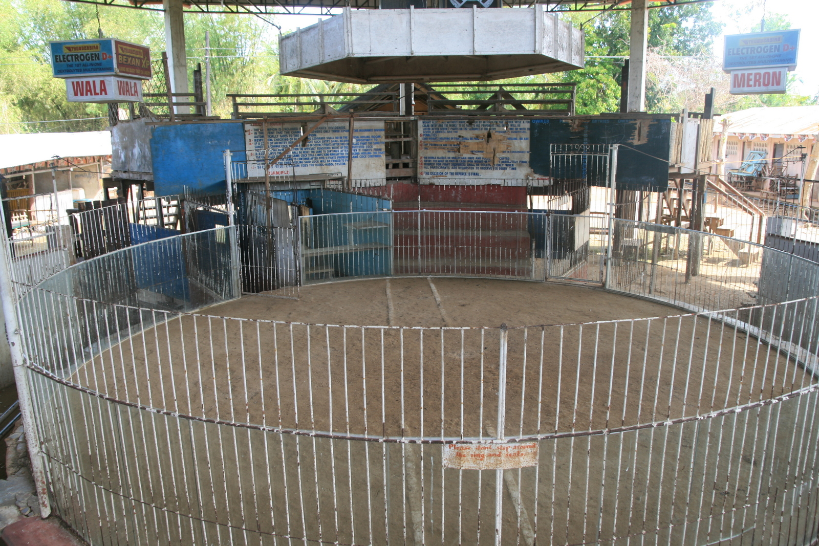 Bantayan St Peter coliseum Cockpit 2